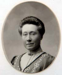 Photograph of the Norwegian teacher and Conservative politician Elise Heyerdahl (1858-1921)